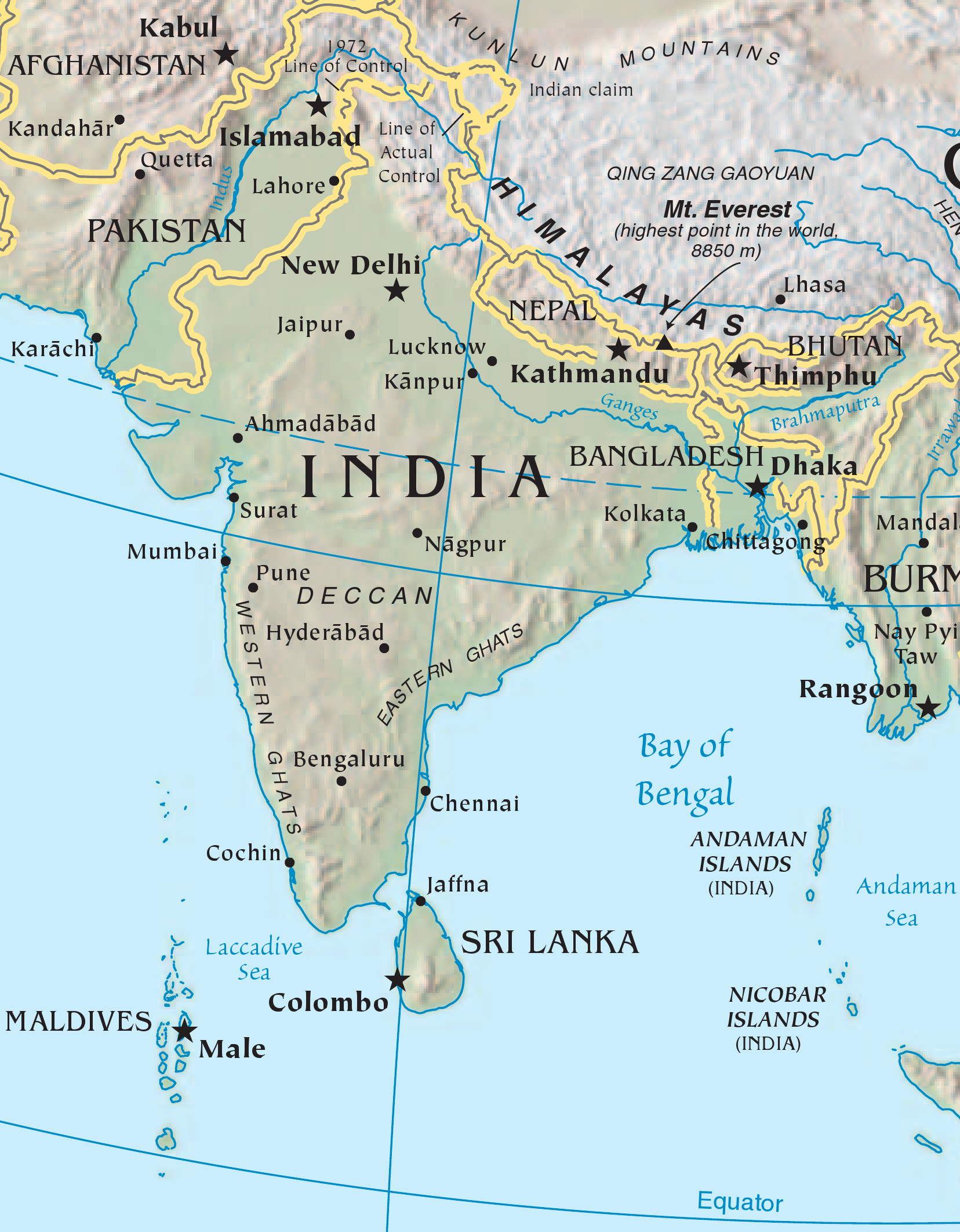 Map of the Indian subcontinent. Cropped from the CIA World Factbook map of Asia.